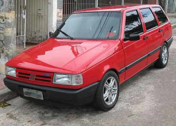 Fiat Elba 1993, a Brazilian-built station wagon version of the Fiat Uno